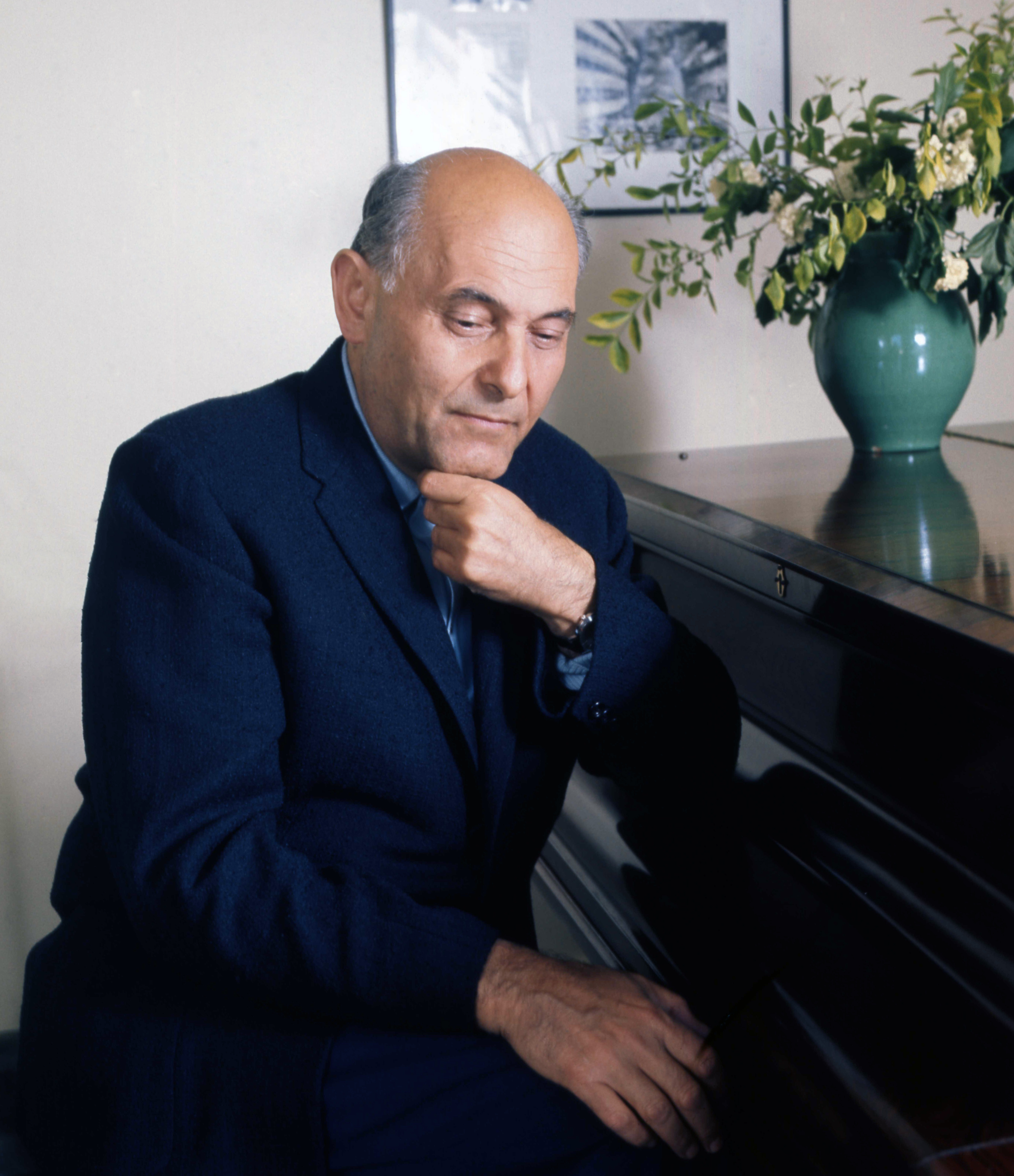 Sir Georg Solti